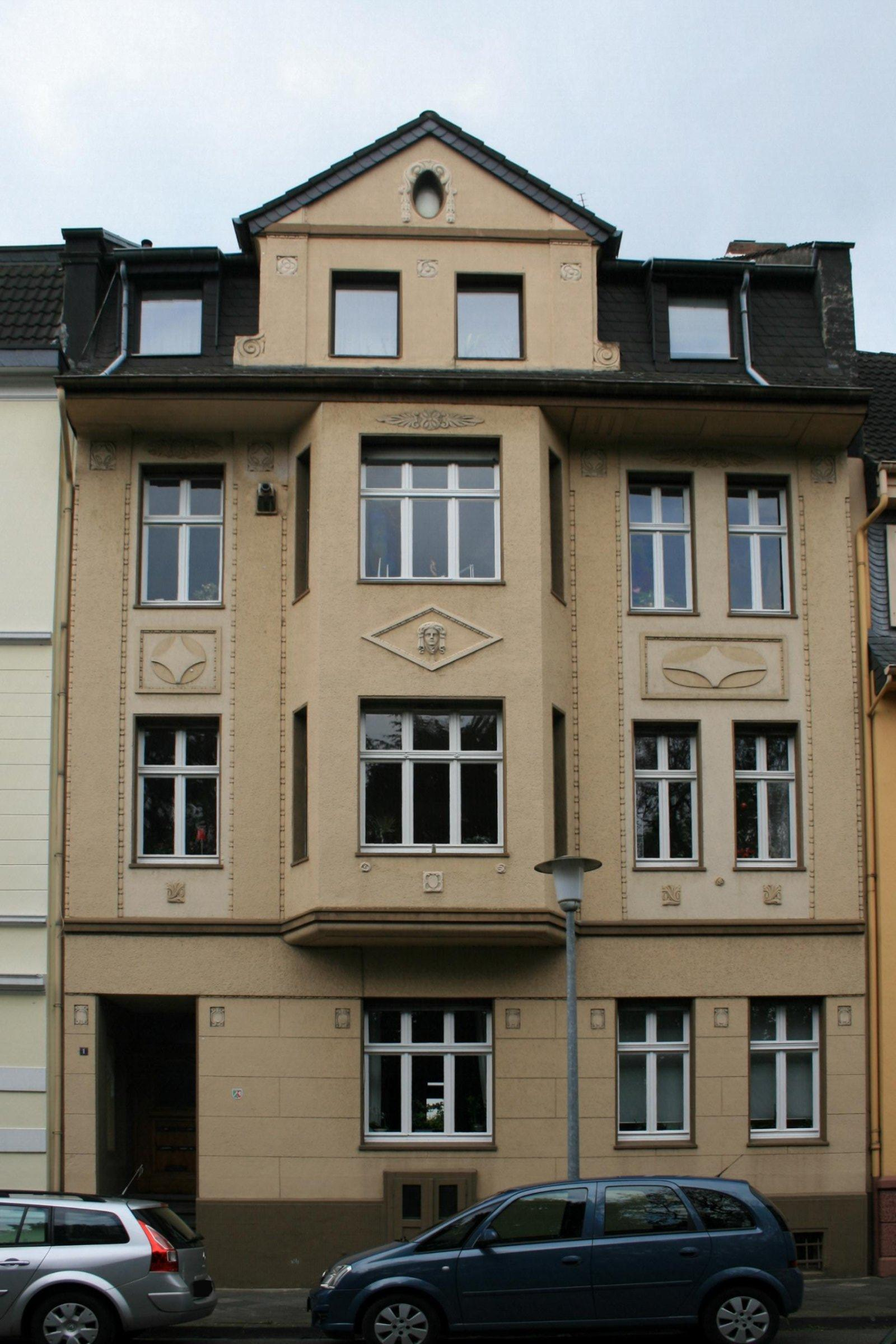 Cultural heritage monument No. B 014 in Mönchengladbach